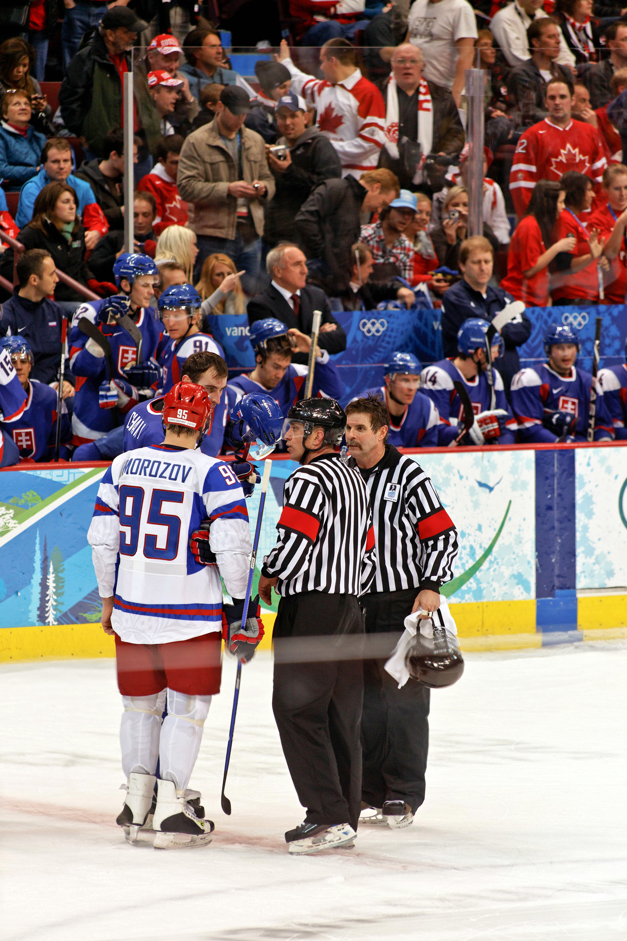 Prior to the shootout, the two team captains; Zdeno Chara of Slovakia, and Aleksey Morozov of Russia, receive instructions from the officials, including veteran NHL referee Bill McCreary who is one of 13 NHL officials selected to call the 2010 Olympics.